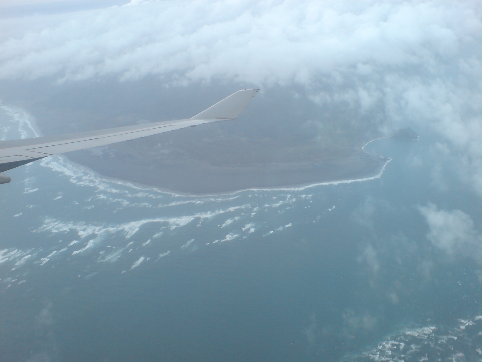 Whatipu Beach near the Manukau Heads in Waitakere City, New Zealand. Looking roughly east.